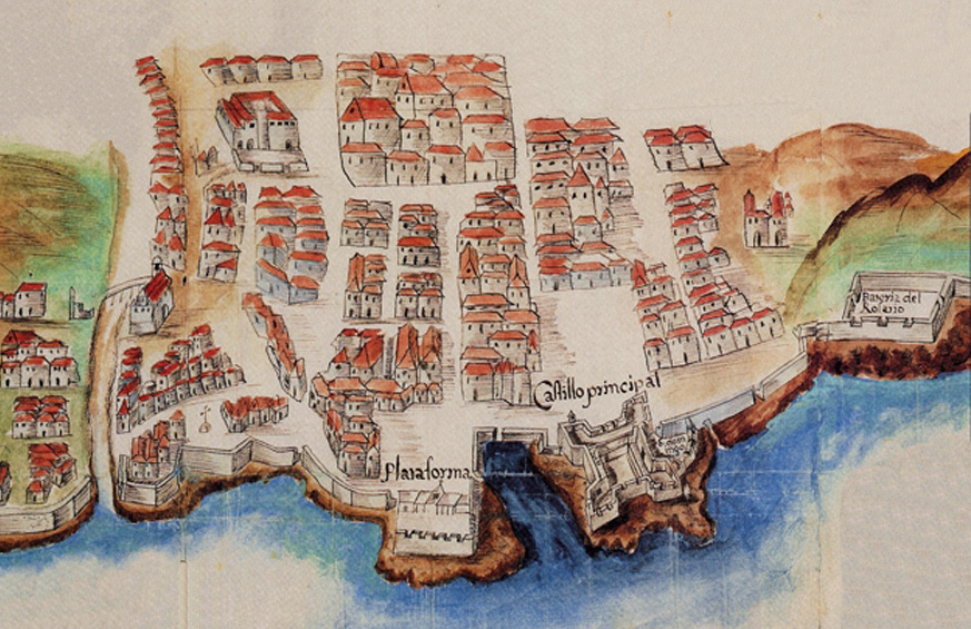 Part of the Streetmap of Santa Cruz de Tenerife by Tiburcio Rosell